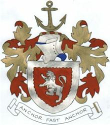 This image is of the coat of arms of the Gray family of Scotland